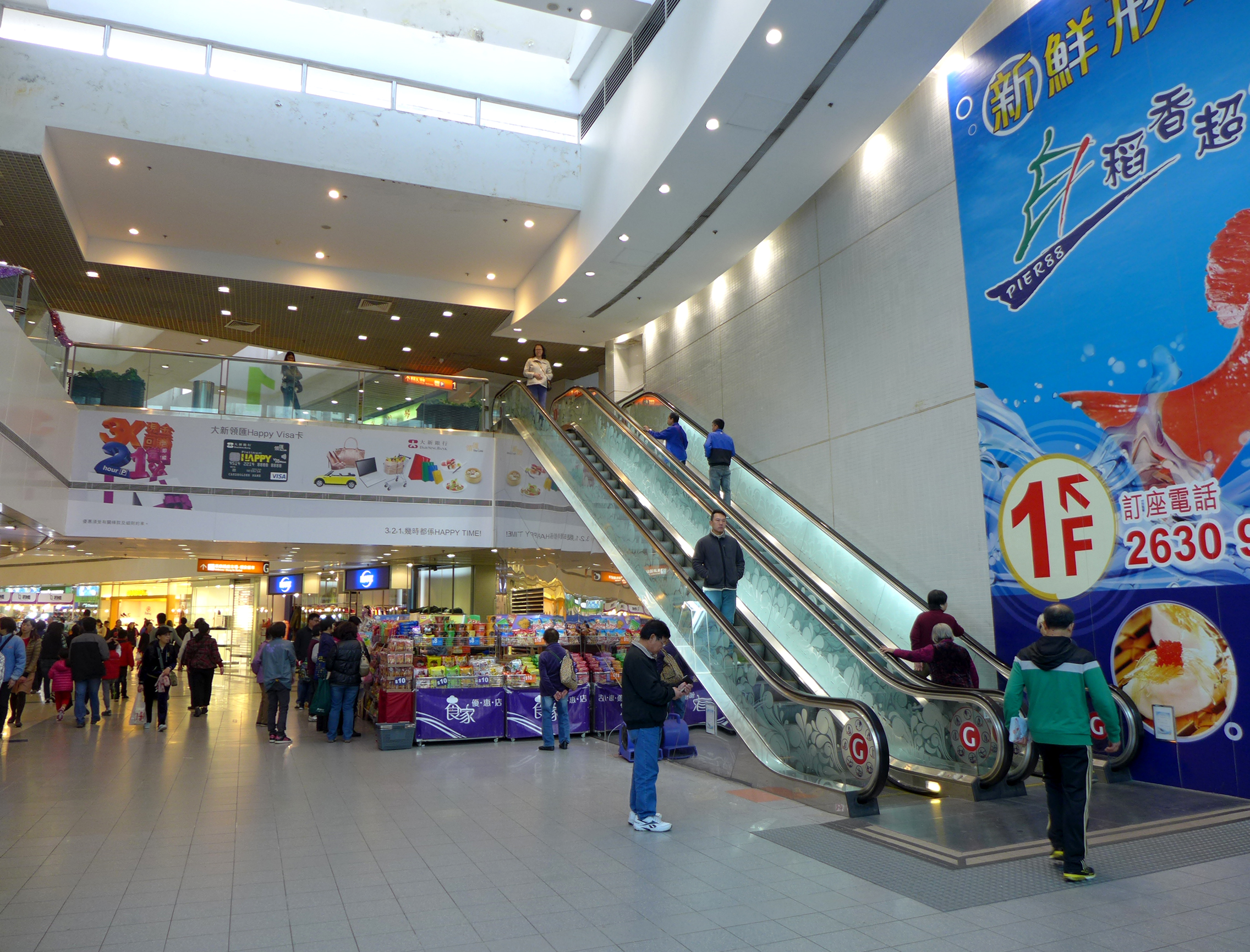 Chung On Shopping Centre